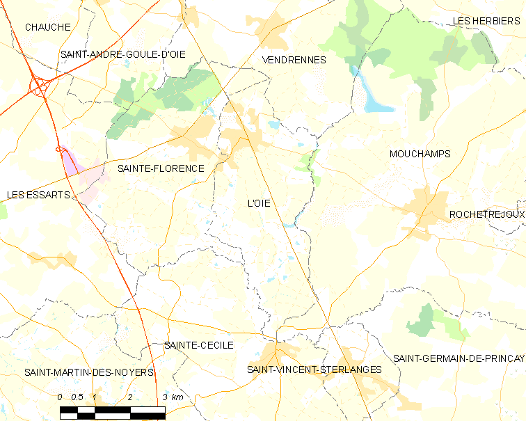 Map of French municipality L'Oie